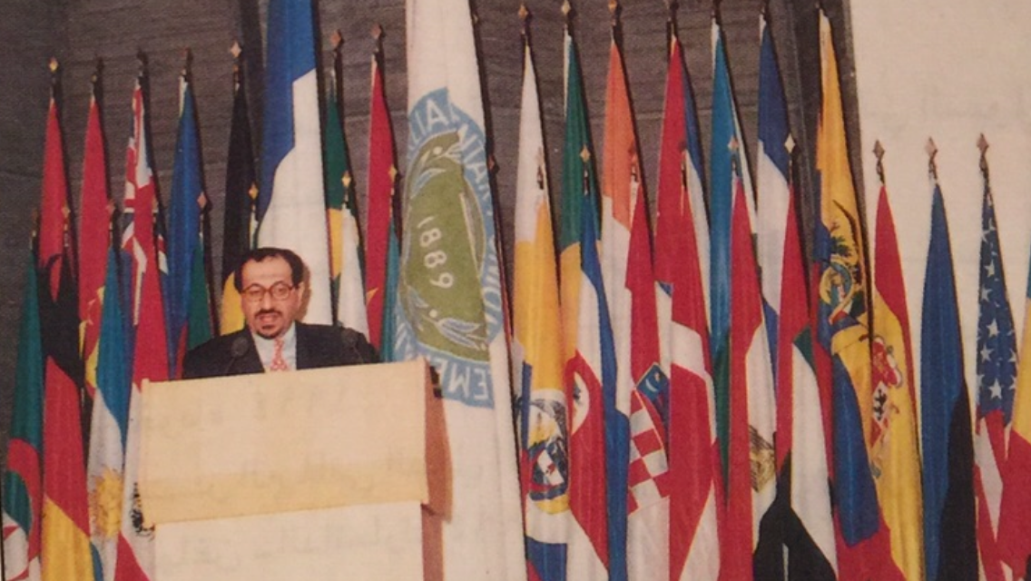 Dr. Nasser Sarkhouh In one of the international conferences